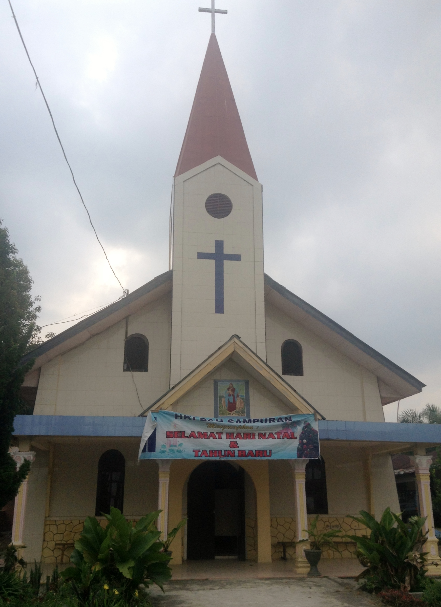 HKI Church in Bah Sampuran, Jorlang Hataran, Simalungun.